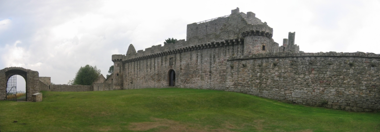 Craigmillar Castle, Edinburgh, Scotland. Outer courtyard.